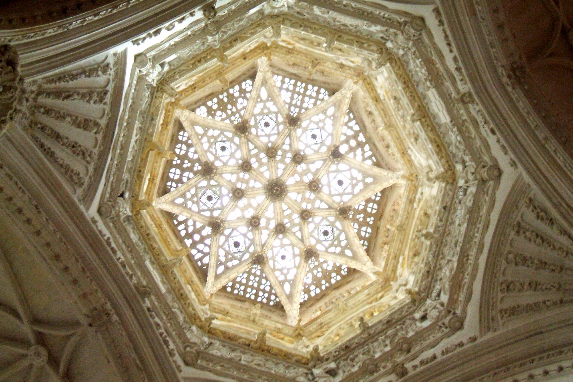 Cimborrio de la Catedral de Burgos